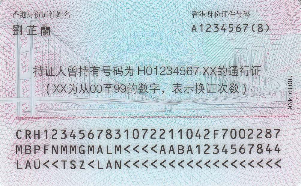 Sample of the Back of the New ‘Home Return Permit’ (Chinese: 港澳居民來往內地通行證